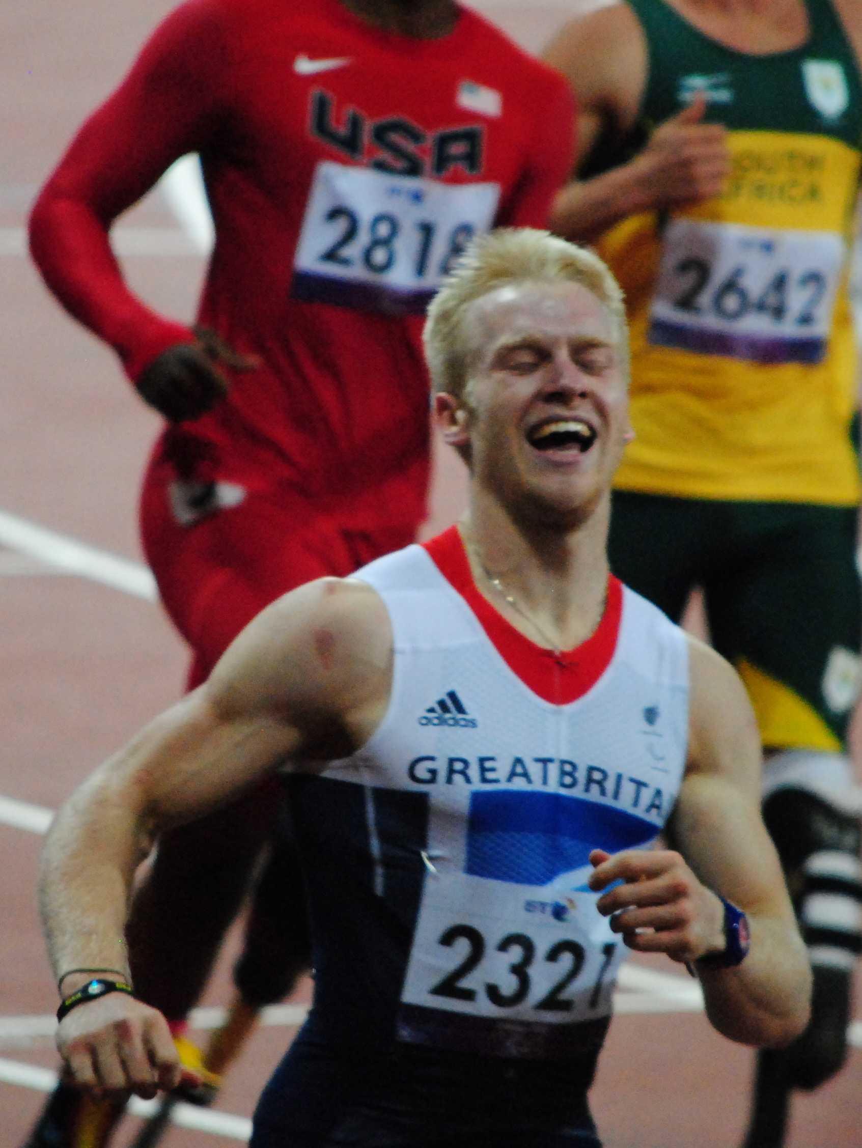 British paralympian Jonnie Peacock at the 2012 Paralympics in London